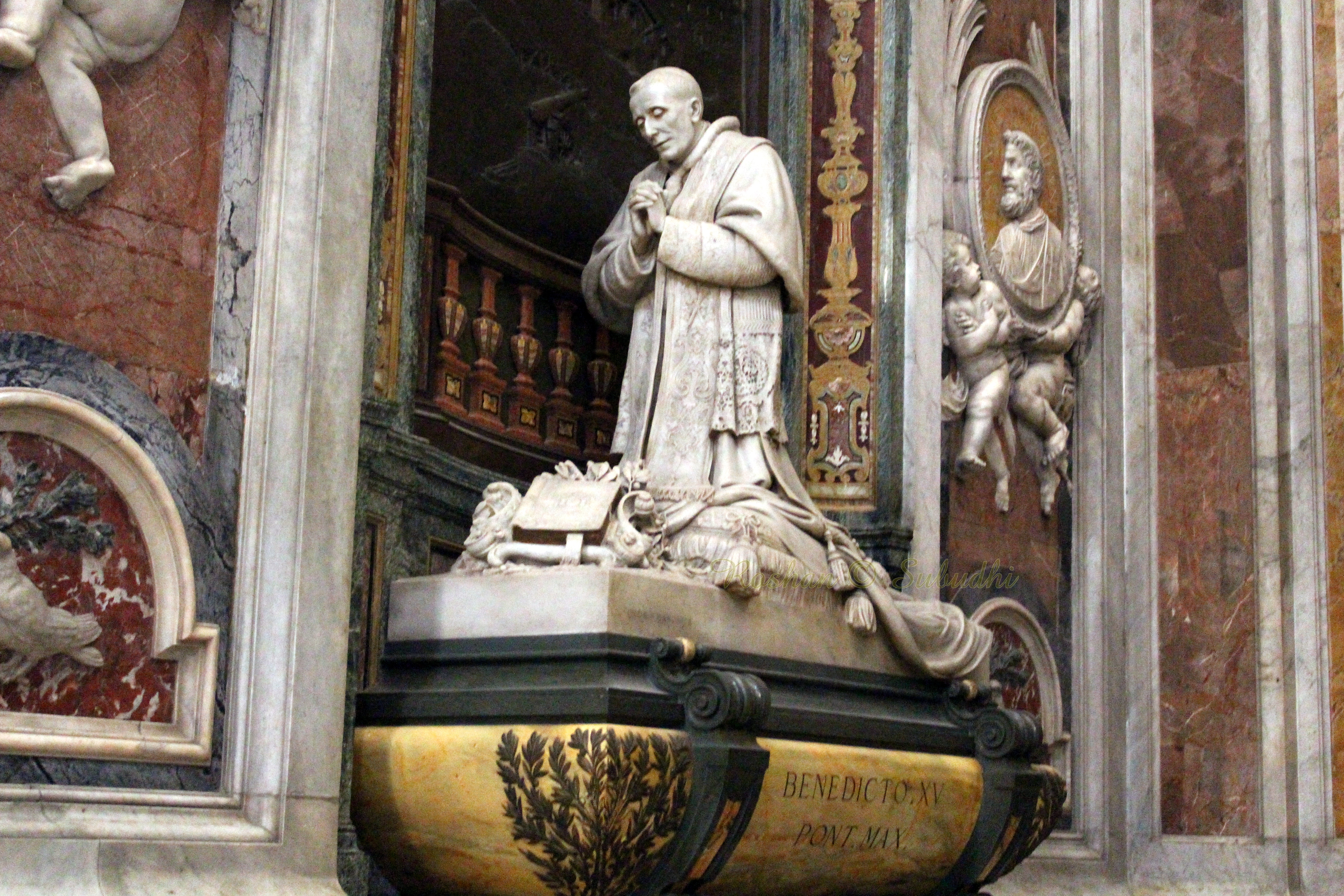 Vatican City, Vatican